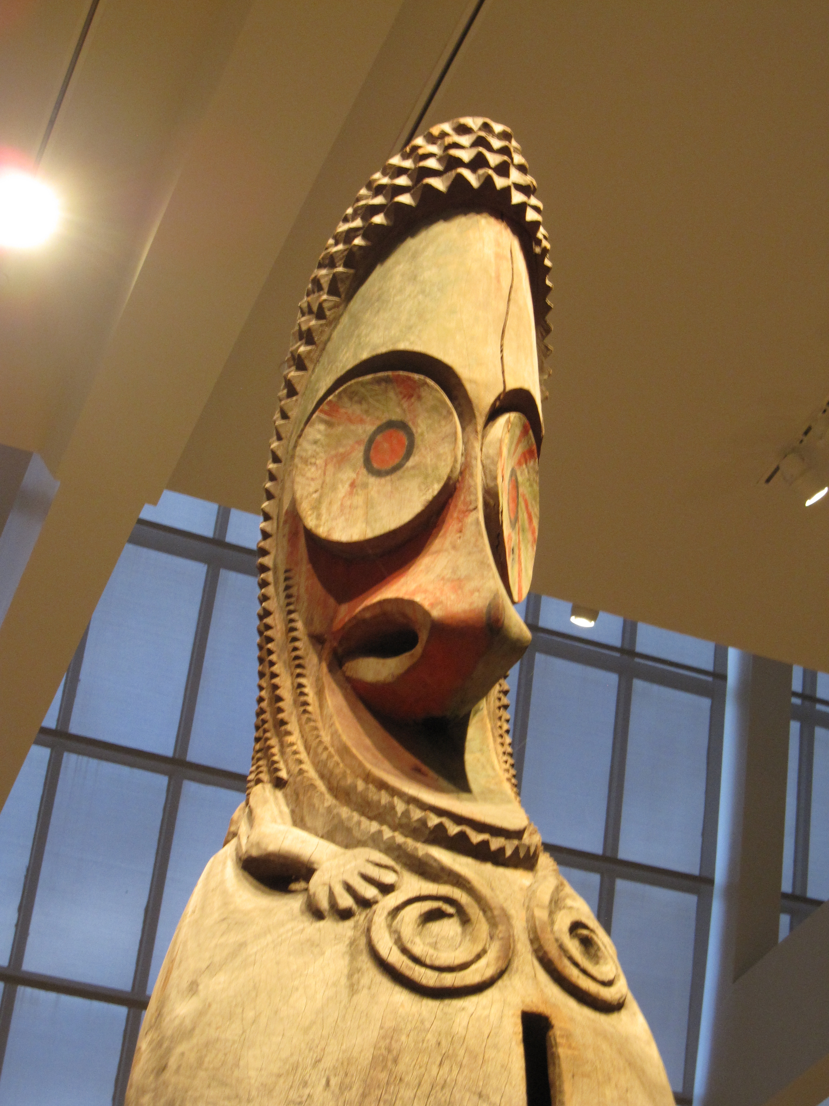 Slit Gong (Atingting Kon). Vanuatu, Ambrym Island, Fanla village. Wood, paint. The spiral motifs painted on the eyes represent metan galgal, the morning star.